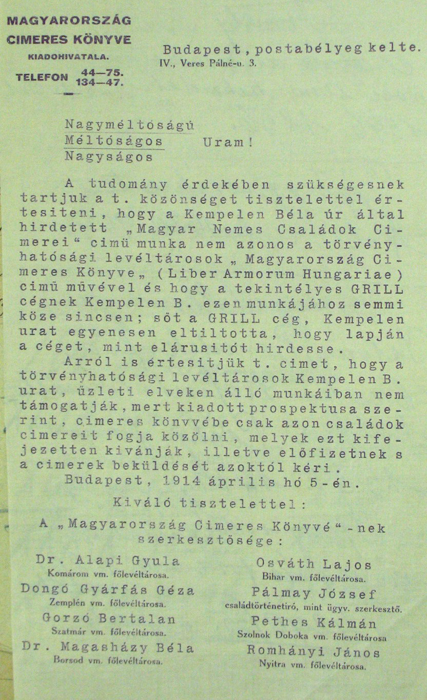 letter from redactors of Magyarország címeres könyve 1914